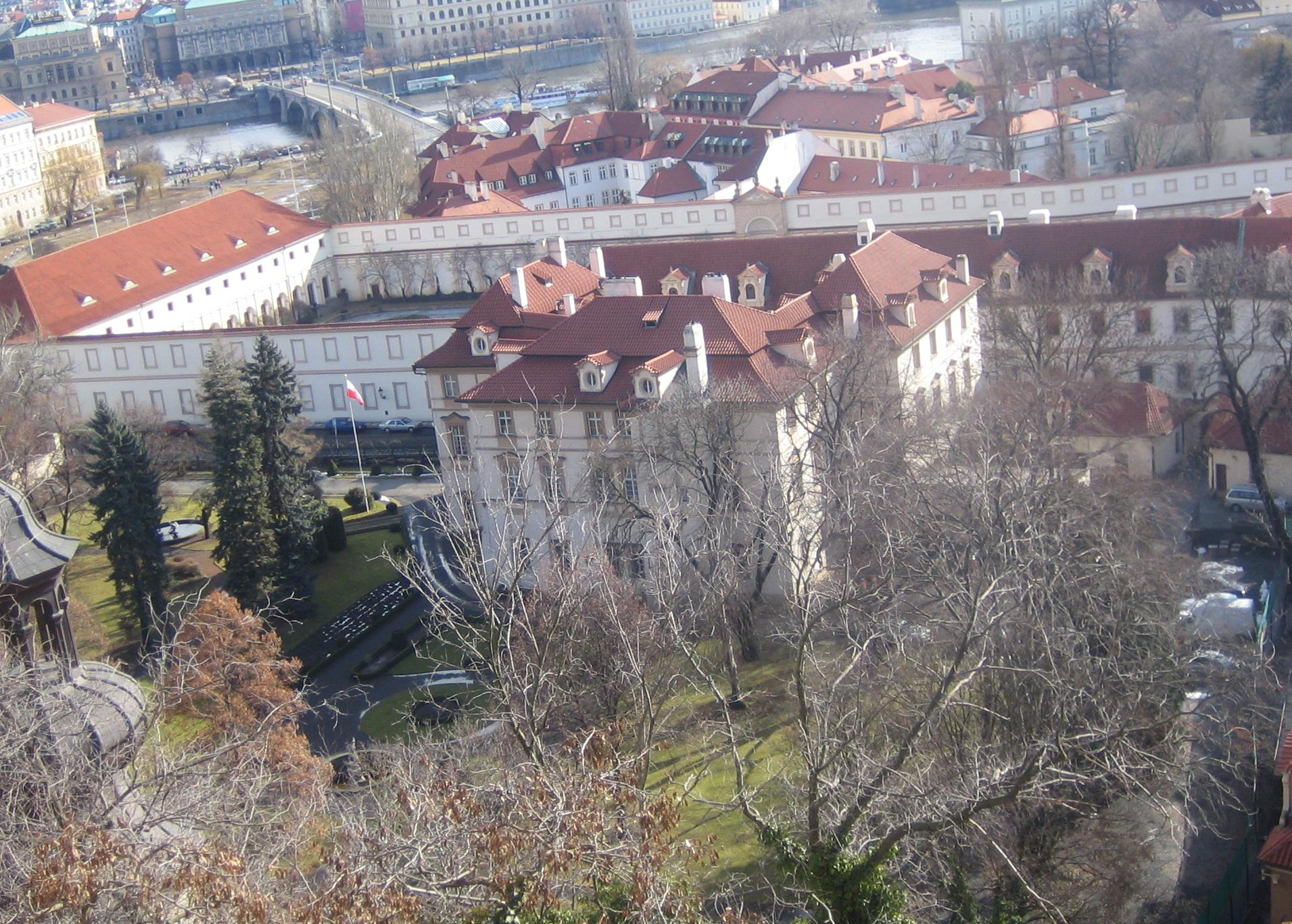 Fürstenberg Palace - seat of the Embassy of Poland in Prague - Malá Strana, Czechia, Valdštejn Palace in background.